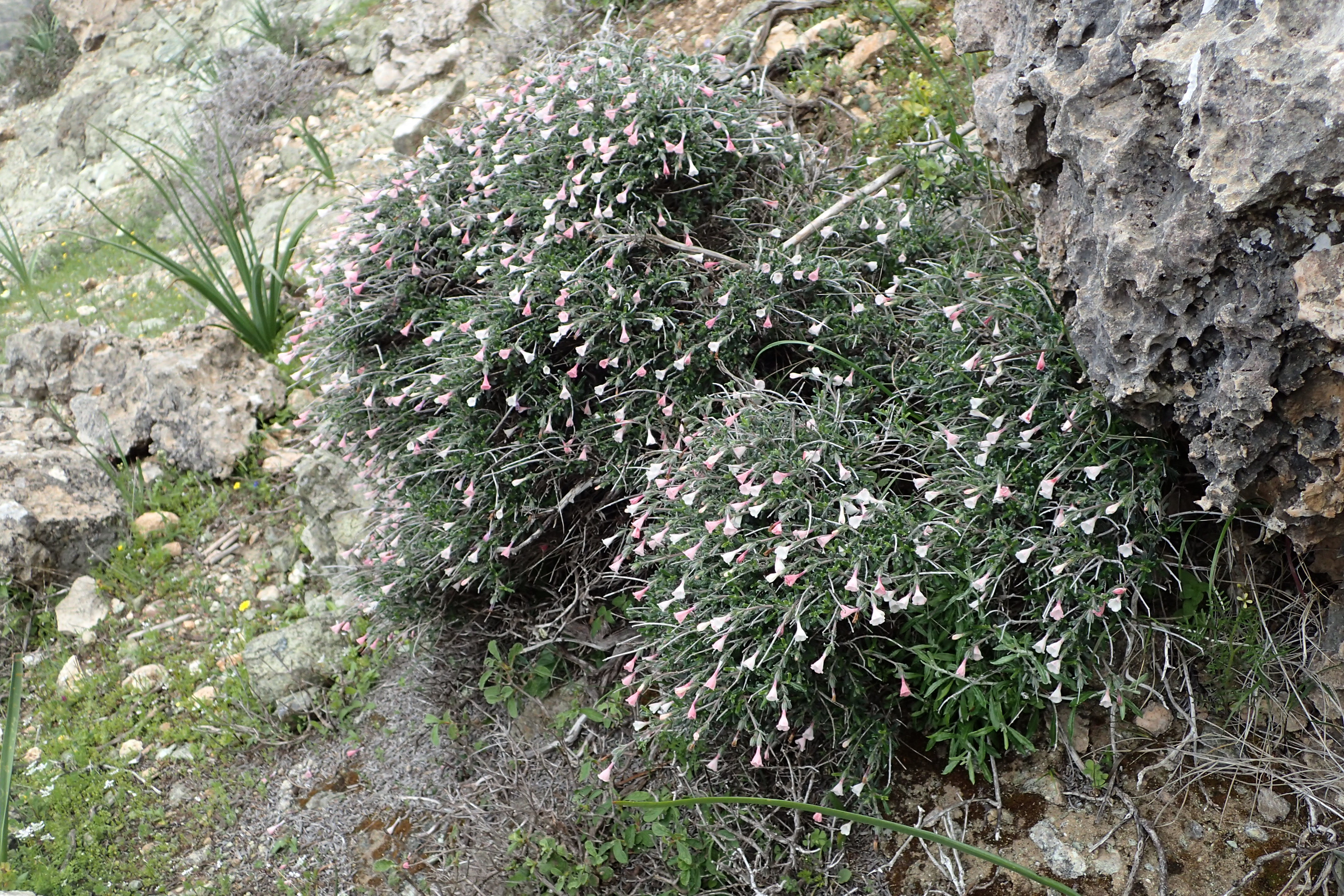 Lithodora hispidula subsp. versicolor on Akamas Peninsula, Cyprus